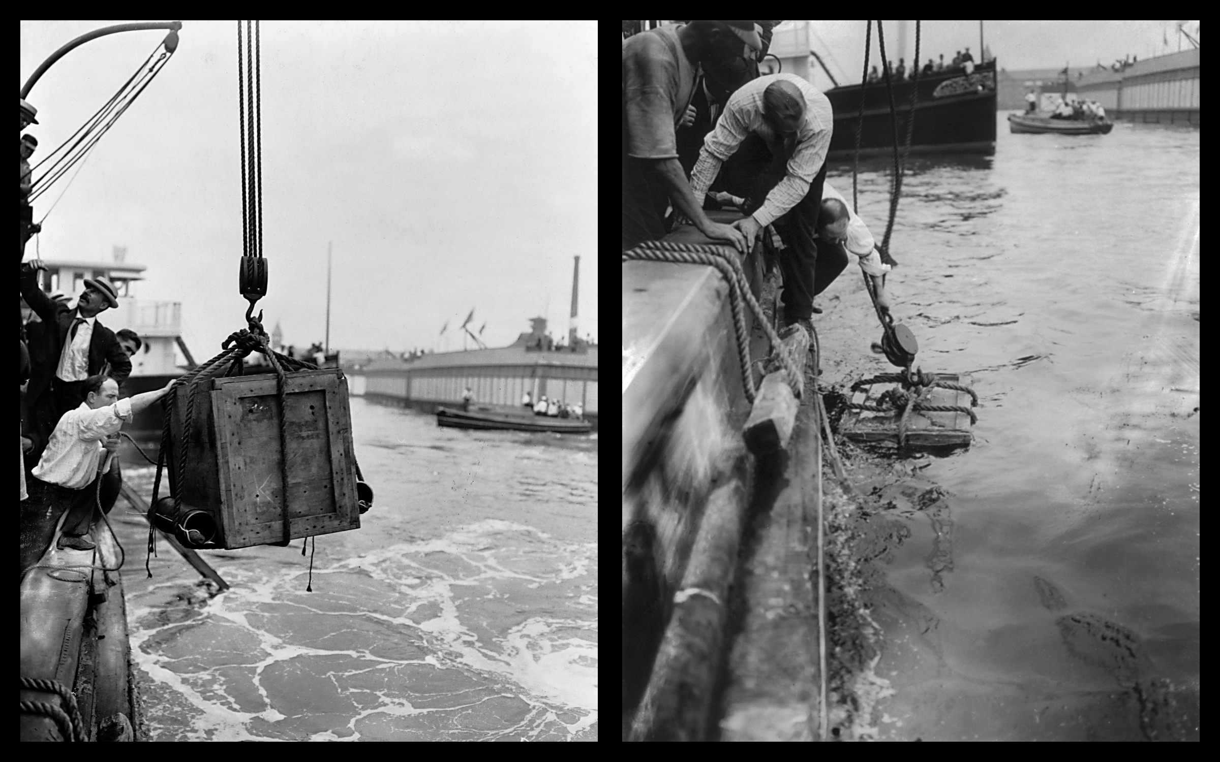 Harry Houdini, in a packing case said to contain six hundred pounds of iron weights, is lowered into New York Bay. He is credited with having escaped in two minutes and fifty-five seconds.